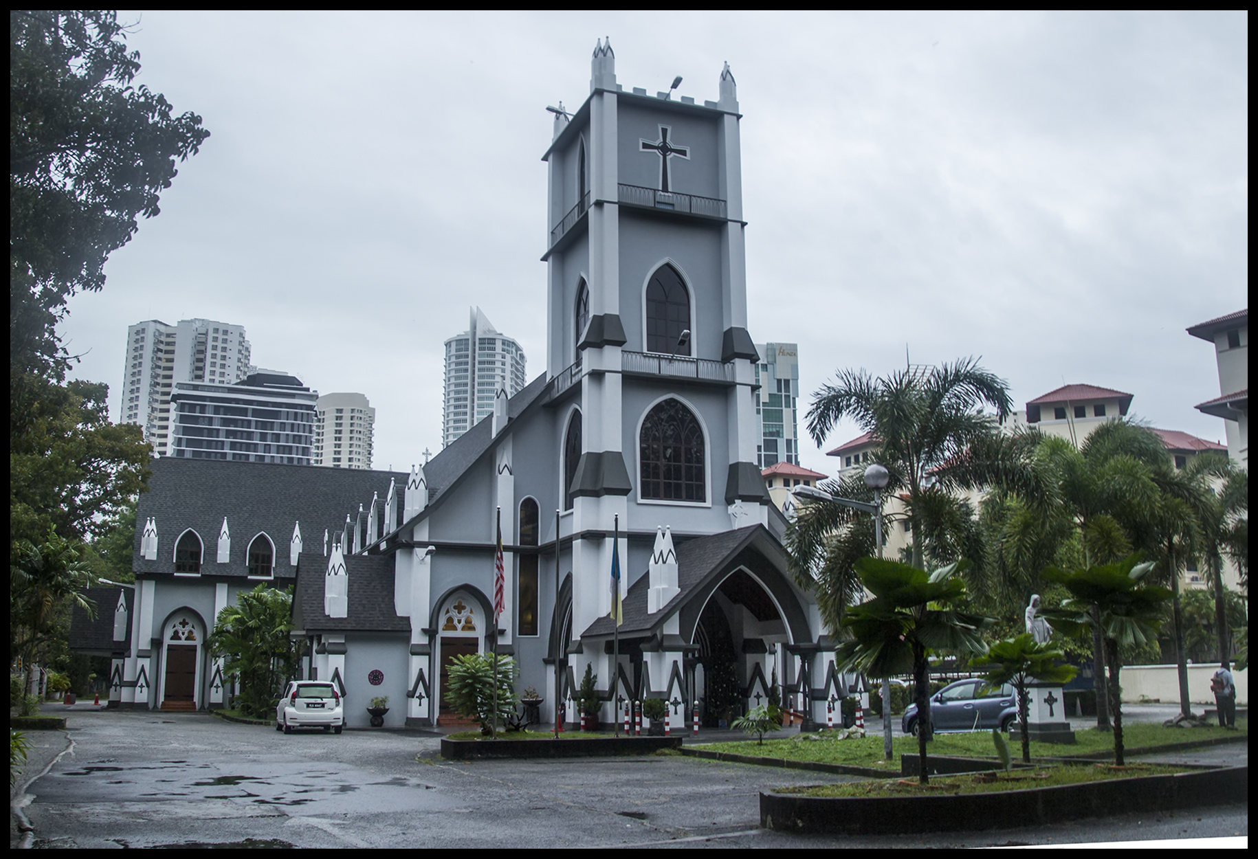 Church near my Penang hotel, Church of Immaculate Conception, Jalan Burma